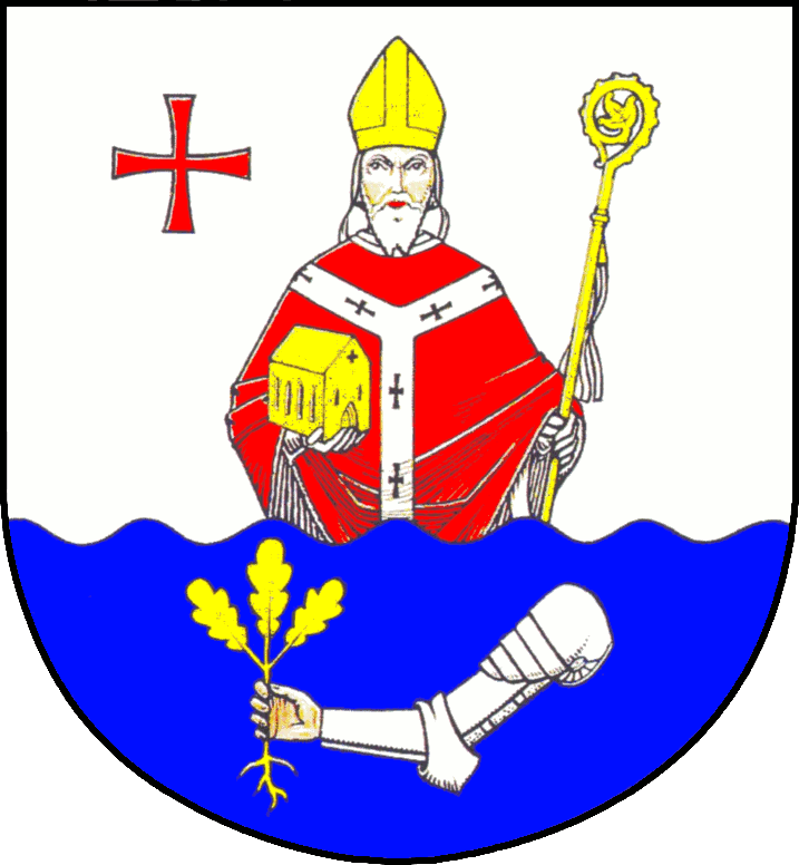 Coat of arms of Hanerau-Hademarschen Blasonierung: In Silber, aus blauem, durch Wellenschnitt abgeteiltem Schildfuß wachsend, der heilige Severin in rotem Messgewand, mit goldener Bischofsmütze, goldenem Bischofsstab in der Linken und goldenem, turmlosen Kirchenmodell in der Rechten, oben rechts begleitet von einem roten Tatzenkreuz; im Schildfuß von links nach rechts ein silbern gerüsteter Arm, der ein goldenes, bewurzeltes Eichbäumchen hält.